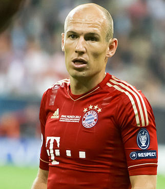 UEFA Champions League Final. FC Bayern München 1-1 Chelsea FC (aet, Chelsea win 4-3 on penalties)